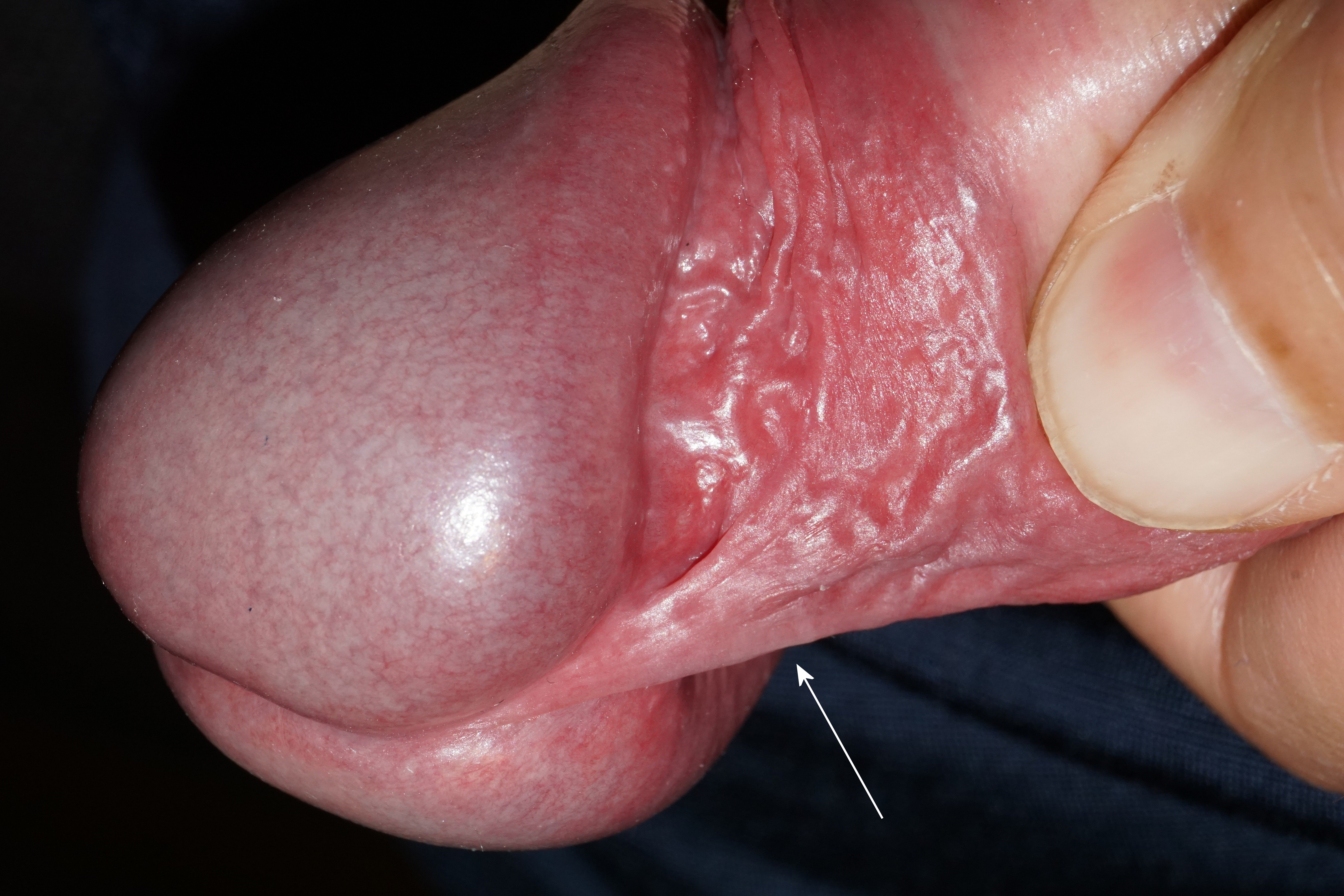 Frenulum of a 39-year-old male pointed with a white arrow.